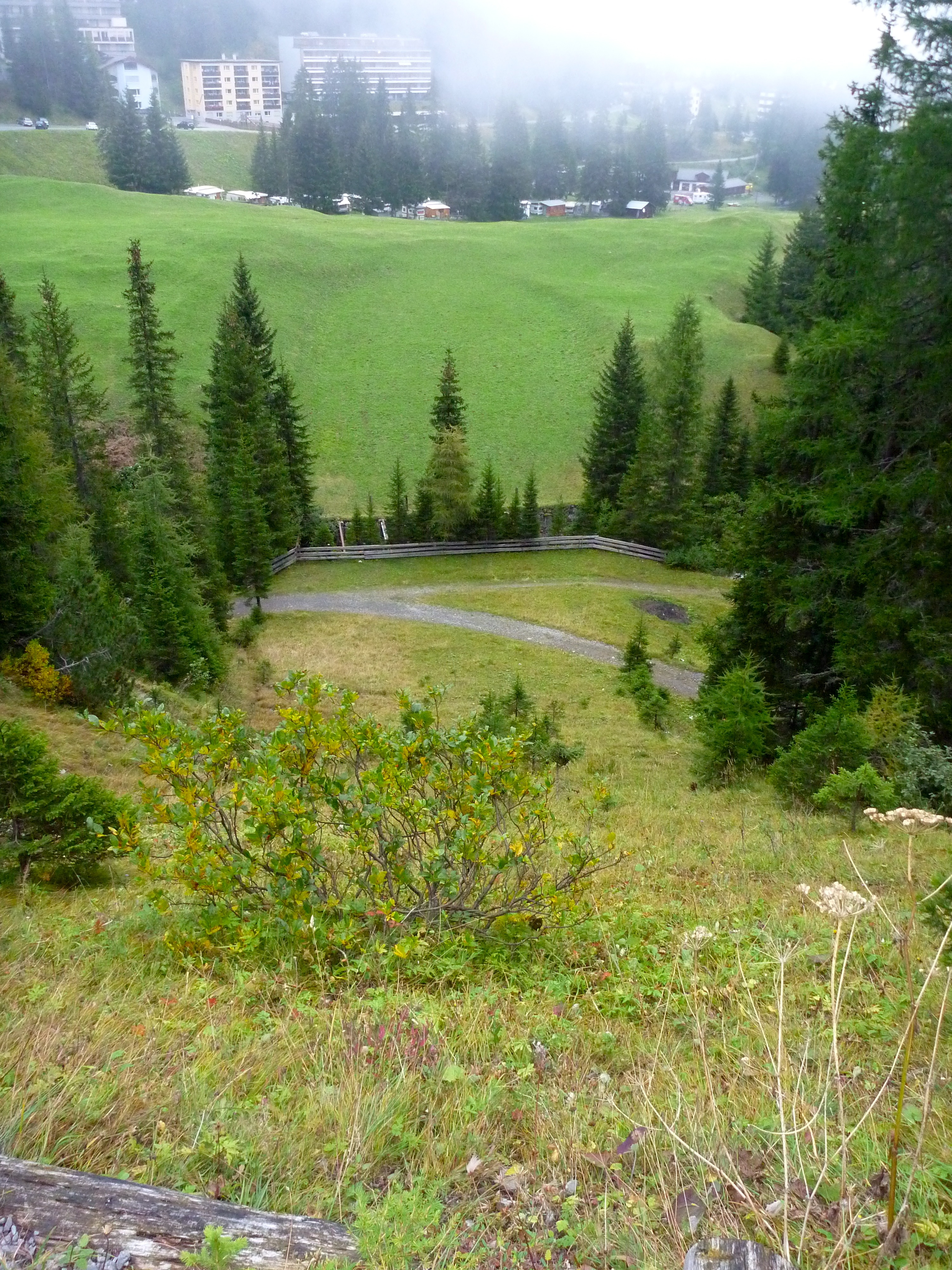 Landing area of Plessurschanze